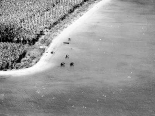 About five Japanese Mitsubishi F1M (Allied code name "Pete") observation seaplanes at the Japanese seaplane base at Rekata Bay on the northern end of Santa Isabel island in 1943.